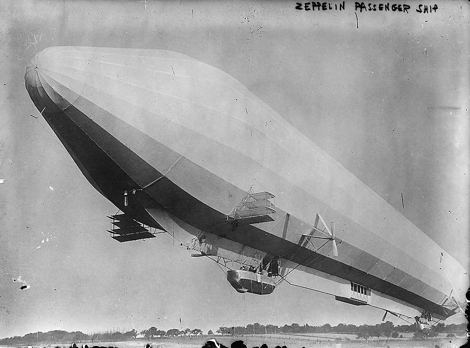 LZ7 Zeppelin Passenger ship